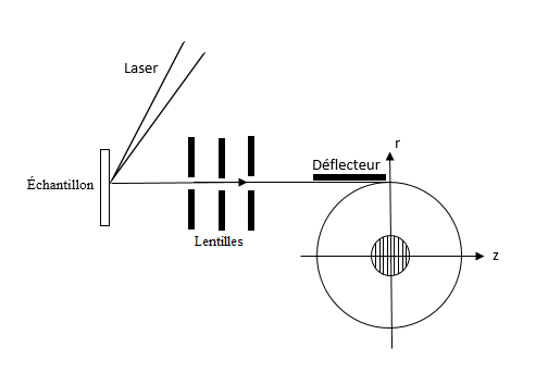 orbitrap3